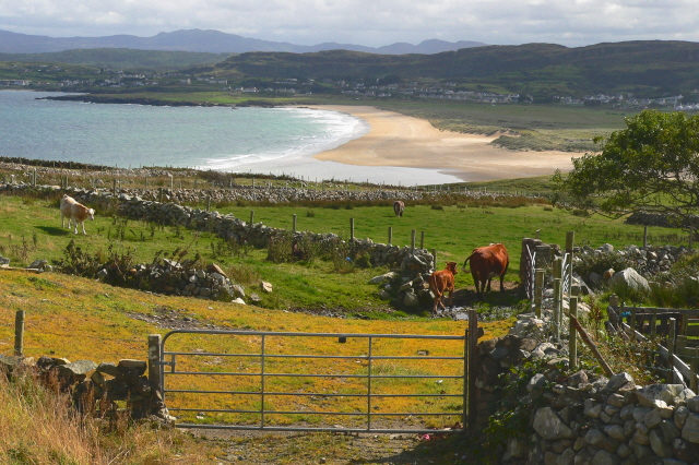 Horn Head - Field, bay inlet, & Dunfanaghy Road scenes along an oblong road on Horn Head located on east slope in a SW-NE orientation and driven in CW direction.